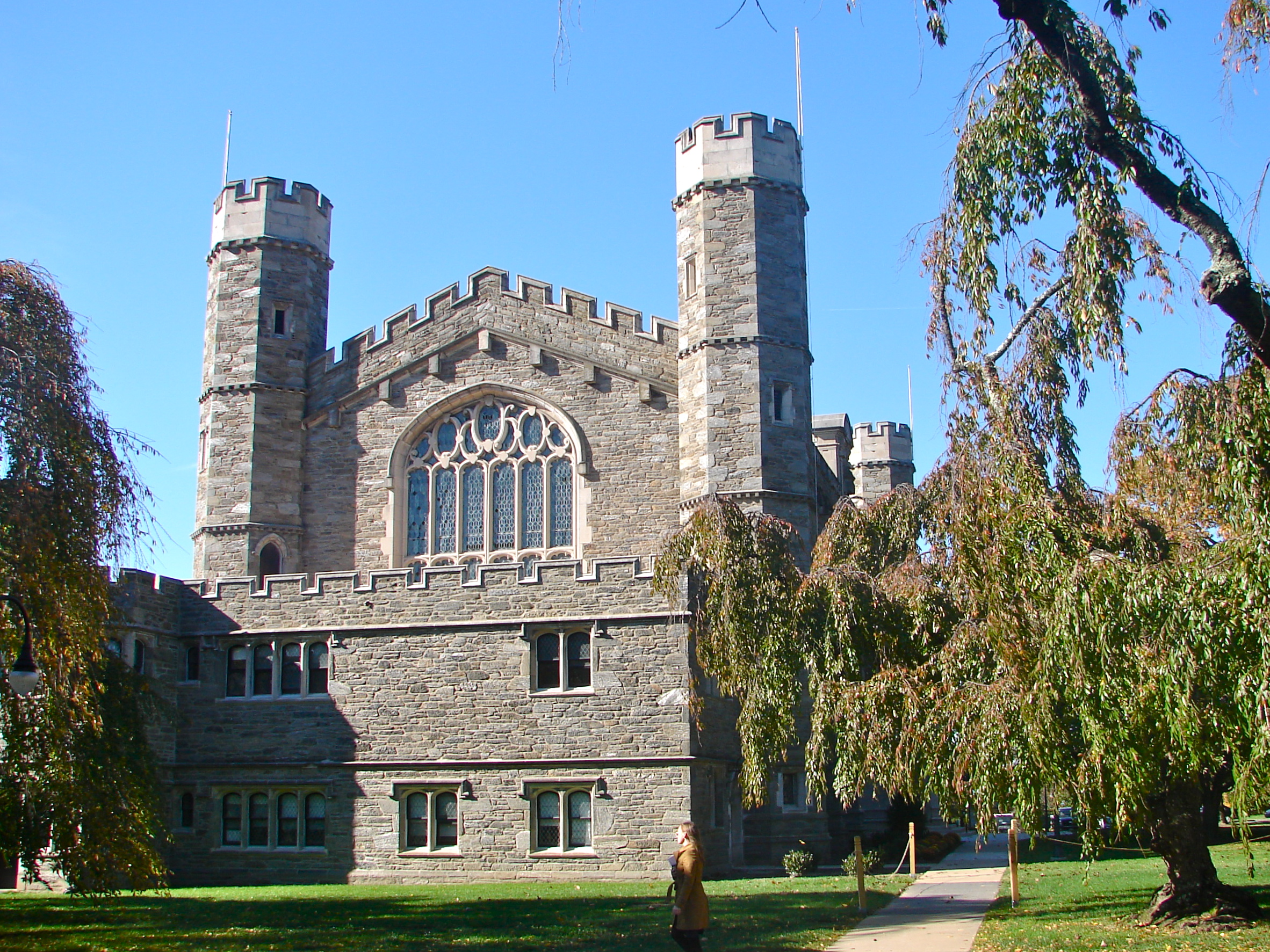 M. Carey Thomas Library, on Bryn Mawr College Campus at 1991 Bryn Mawr Ave., Bryn Mawr, Pennsylvania, Montgomery County. Listed as a National Historic Landmark. Katherine Hepburn skinny-dipped in the fountain nearby.